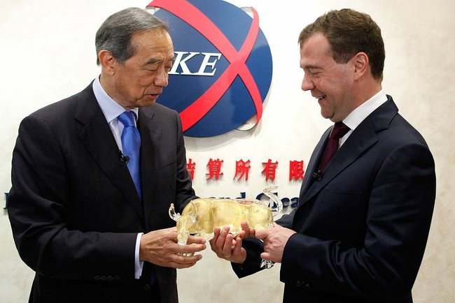 With Chairman of the Hong Kong Stock Exchange Ronald Arculli.